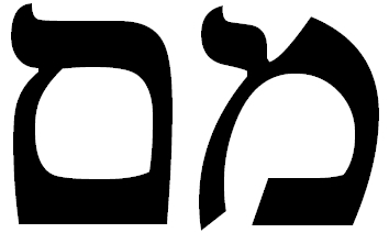 Sofit mem and hebrew letter mem